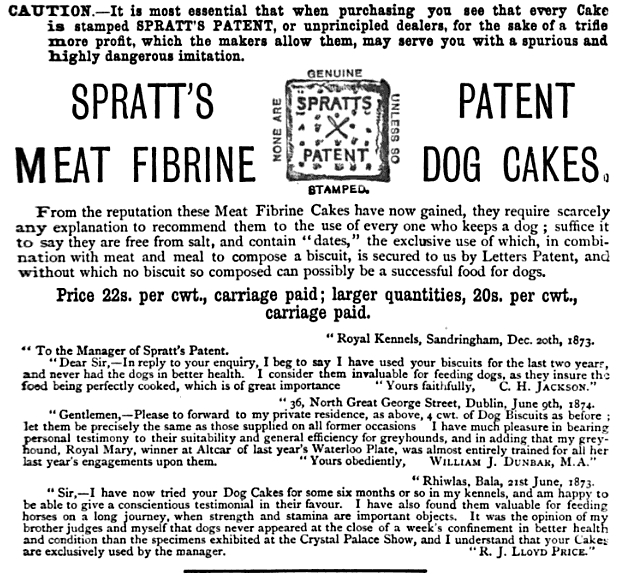 This is an ad for Spratt's Patent Meat Fibrine Dog Cakes, probably the first patented brand of dog biscuits